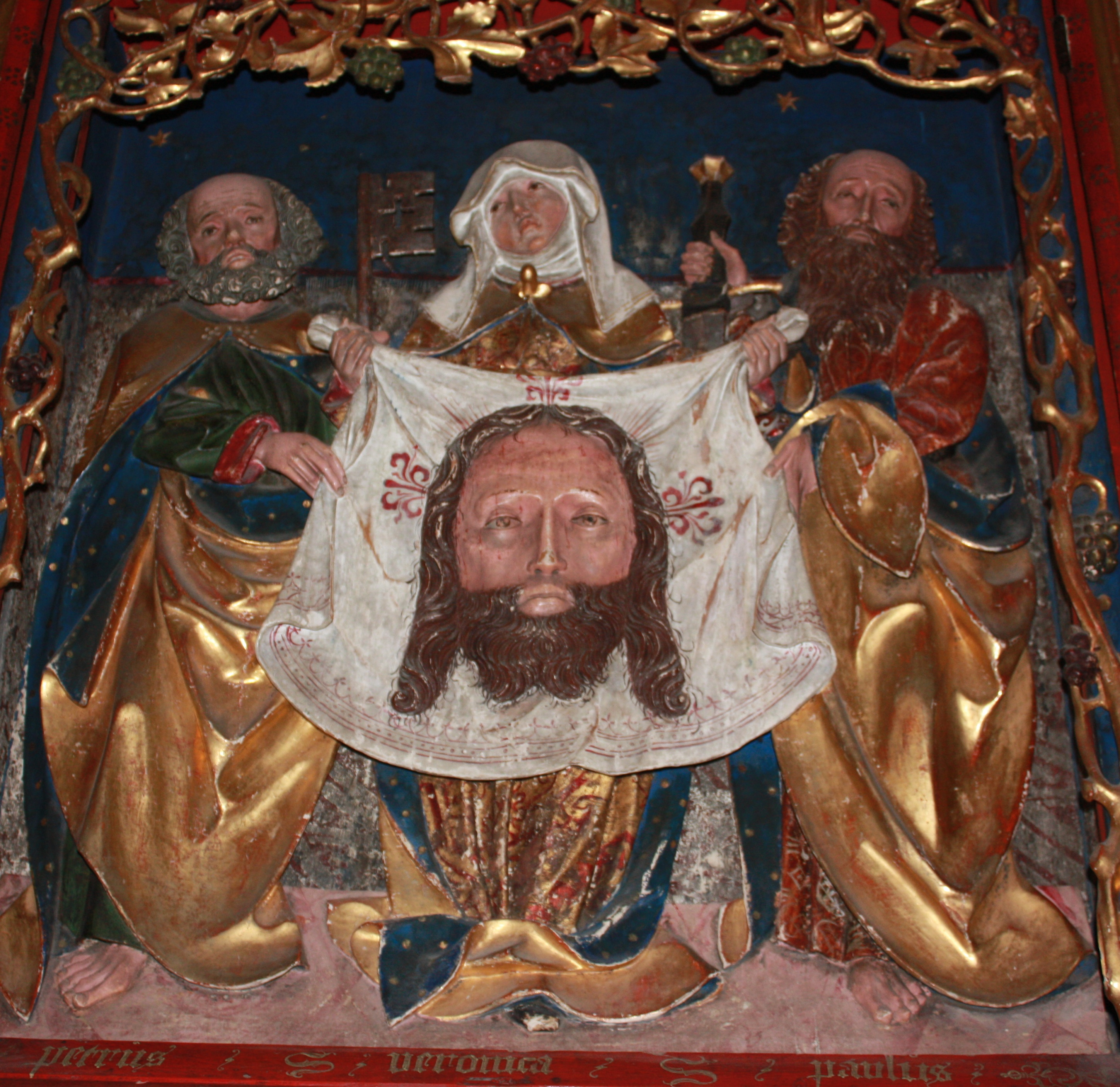 Parish church Saint Vinzenz - Veronica-altar - detail Locality: Heiligenblut Community:Heiligenblut